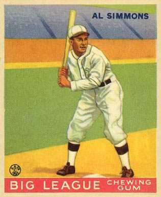 1933 Goudey baseball card of Al Simmons of the Chicago White Sox #35. PD-not-renewed.